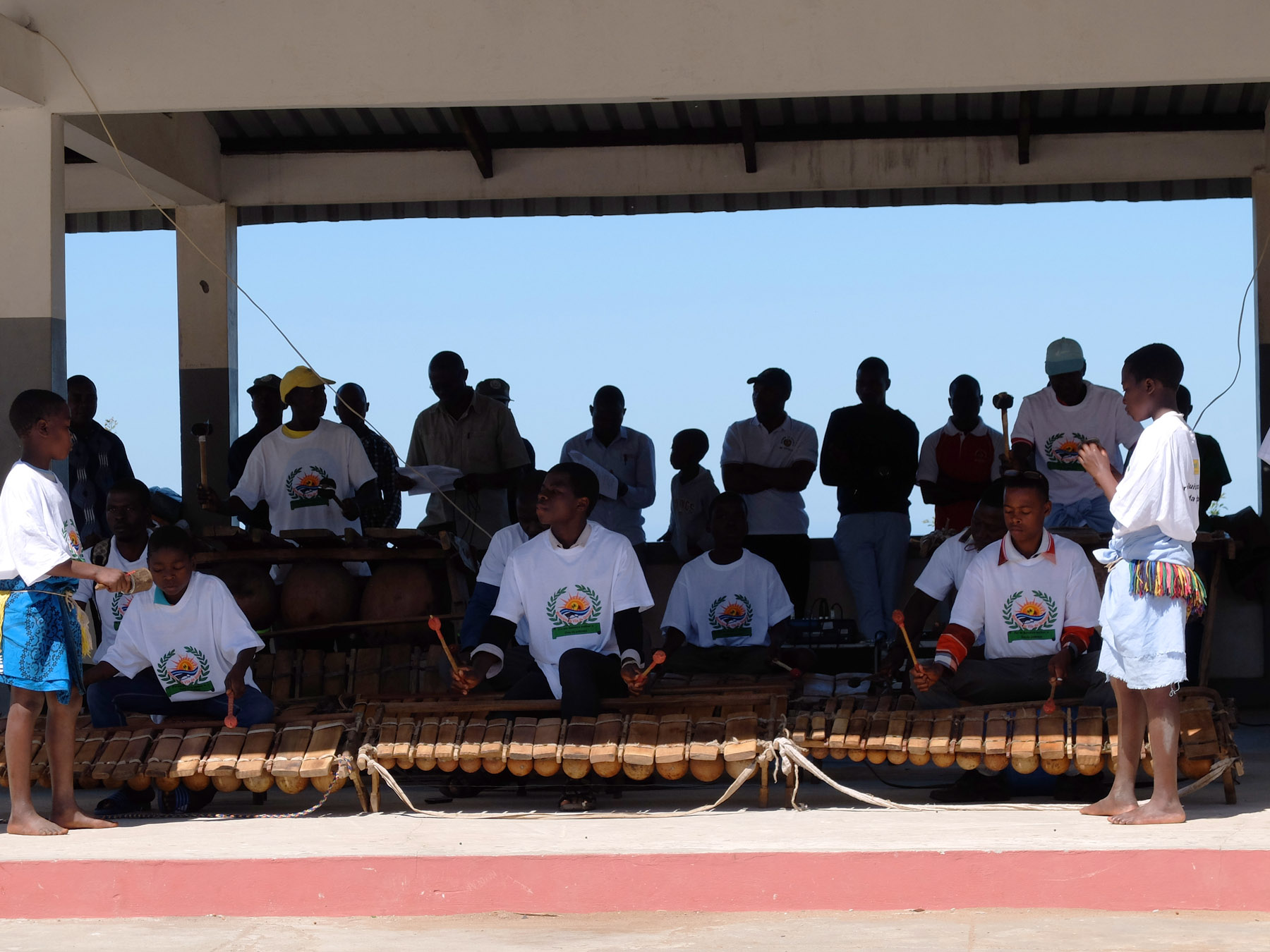 Festival de Timbila in Quissico, Moçambique This is an image of music and dance from Mozambique